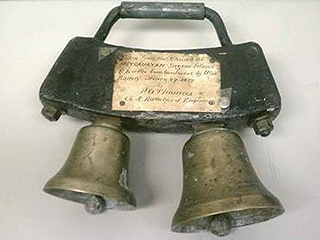 F-1578 Parish Church of St. Francis of Assisi[1] Parokya ni San Francisco de Assisi (Meycauayan City, 3020 Bulacan) Coordinates: 14°44'5"N 120°57'24"E[2]Vicariate of St. Francis of Assisi – Meycauayan City, Bulacan Roman Catholic Diocese of Malolos Vicar Forane: Fr. Ronald C. 0rtega Feast, Octo­ber 4, Parish Priest: Msgr. Epitacio V. Castro, Parochial Vicars: Fr. Ehersey Giovanni Sulit[3][4]